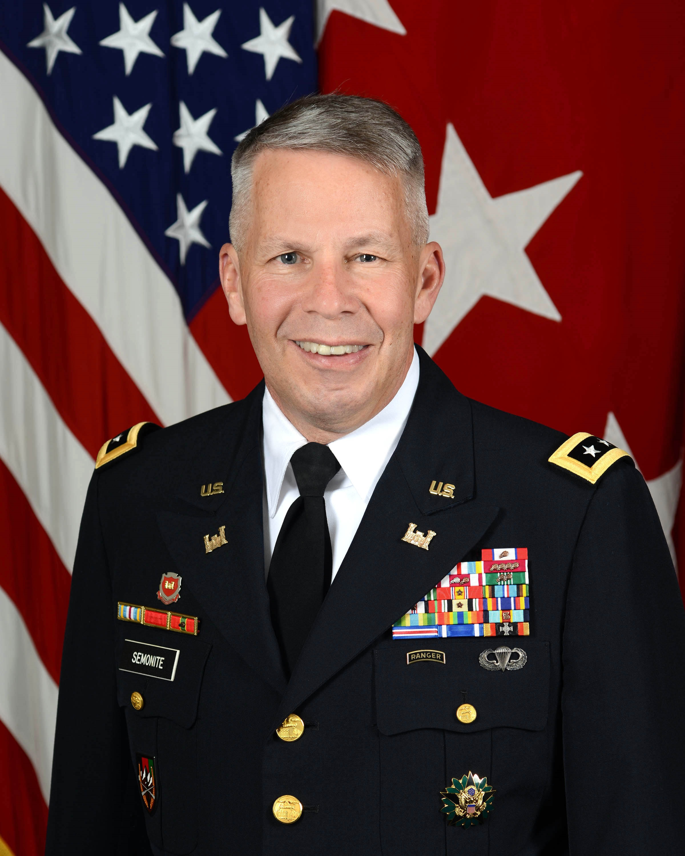 Lt. Gen. Todd Semonite, Chief of Engineers and the Commanding General of the U.S. Army Corp of Engineers, poses for a command portrait in the Army portrait studio at the Pentagon in Arlington, VA, May 17, 2016. (U.S. Army photo by Monica King/Released)